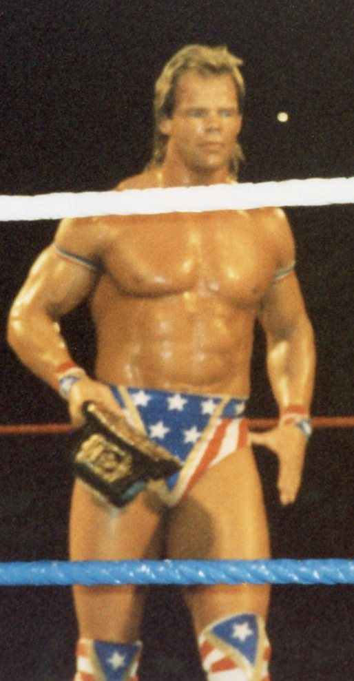 Lex Luger during his All-American gimmick.